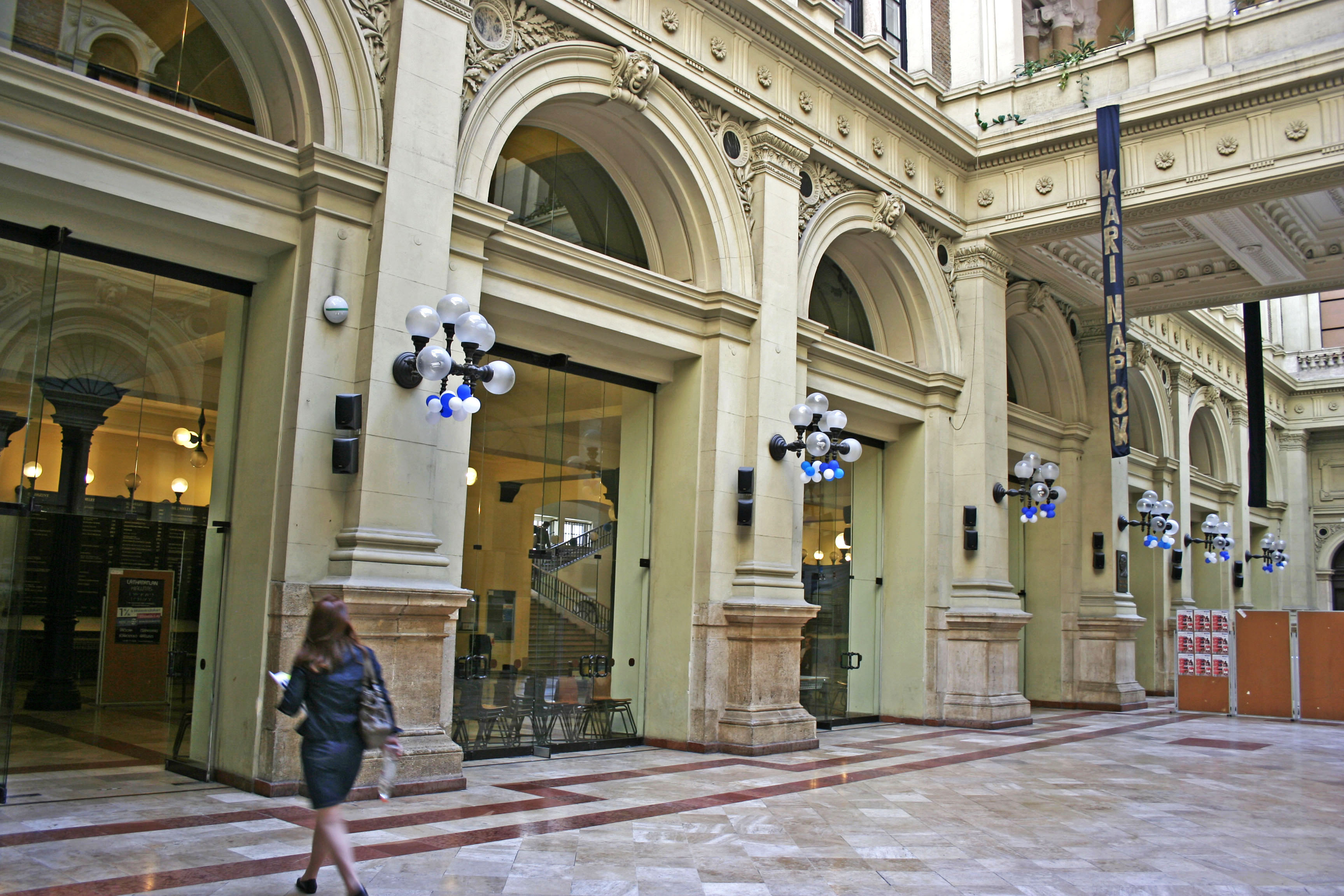 Corvinus University of Budapest - Covered Patio